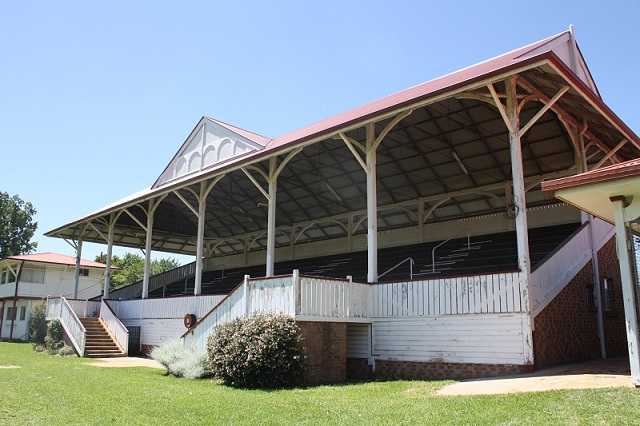 Glen Innes Showgrounds Grandstand